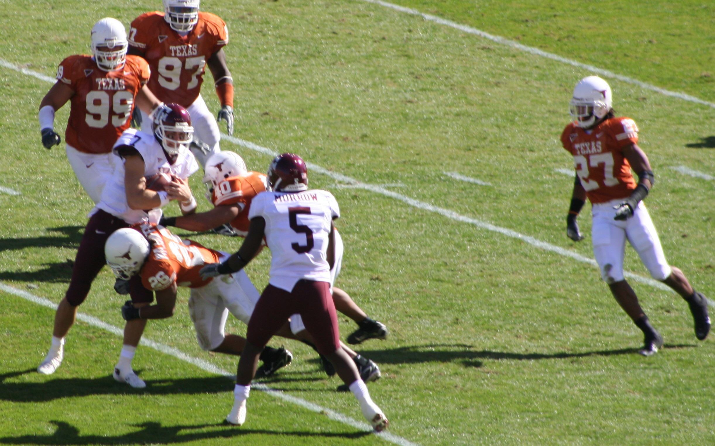 Members of the 2006 Texas Longhorn football team tackle Texas A&M's quarterback, Reggie McGee